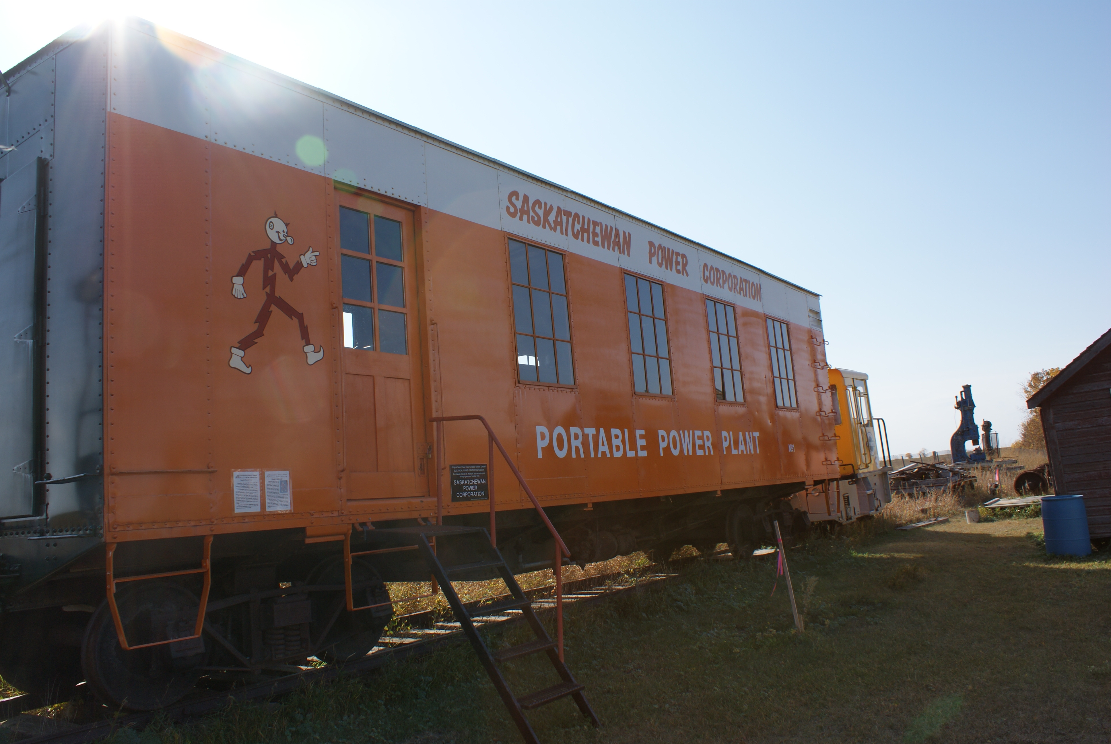 Portable power plant at the Saskatchewan Railway Museum Sask Power Car used at the Red River Flood of 1950